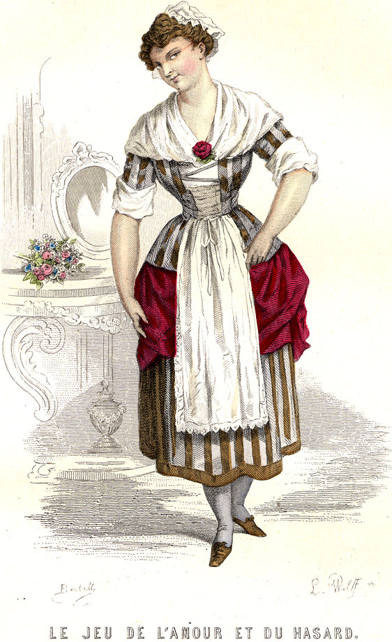 The Game of Love and Chance (1730) by Pierre de Marivaux (1688-1763)